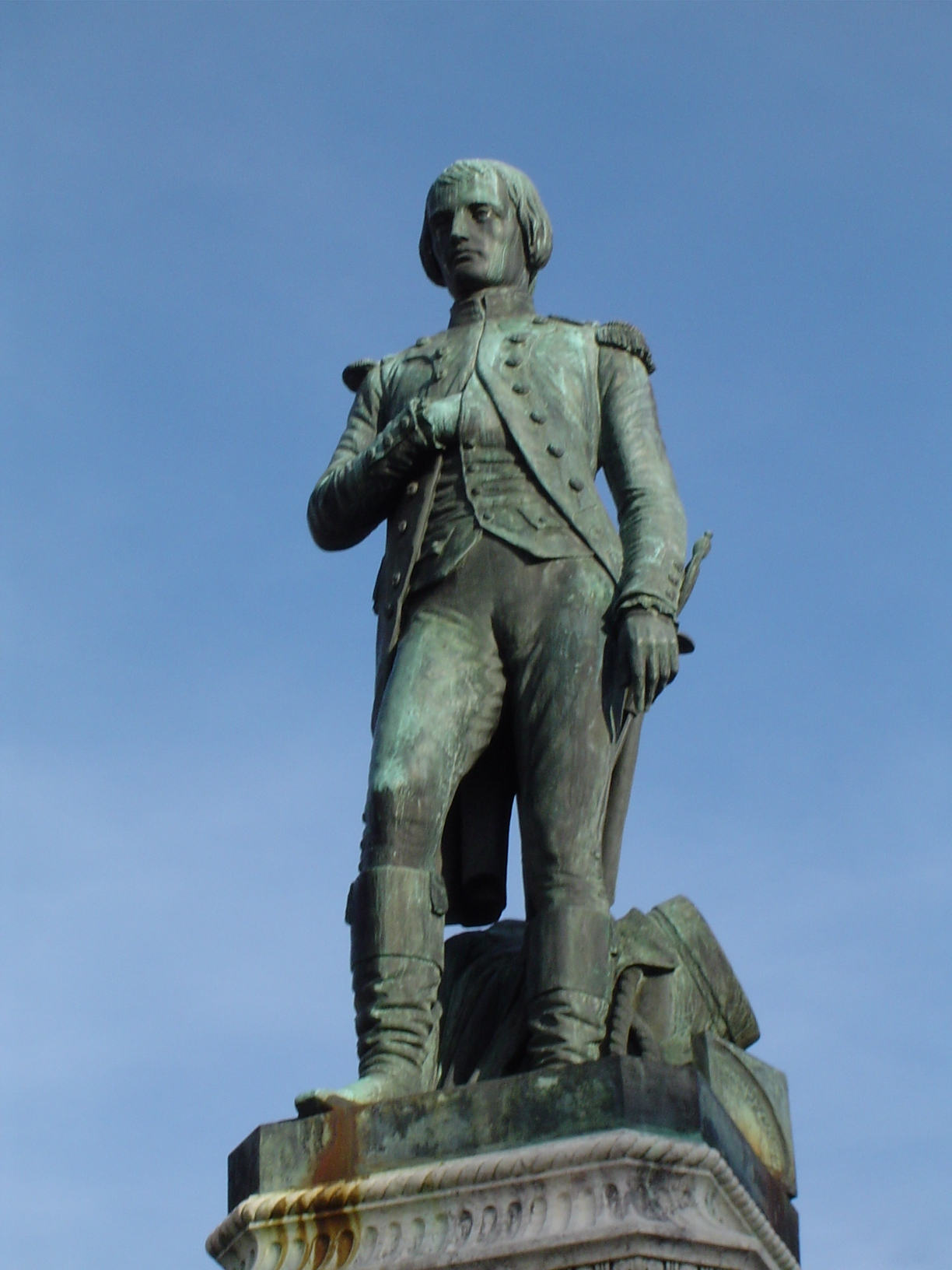 François Jouffroy: Le Lieutenant Bonaparte, statue, 1857, Auxonne, Côte-d'Or, Bourgogne, France.